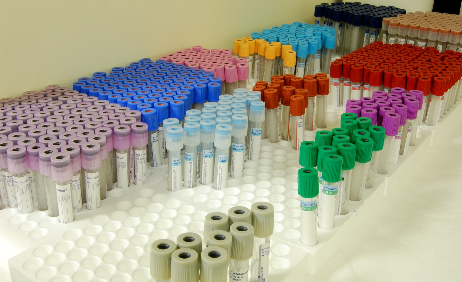 different kind of drawing test-tubes